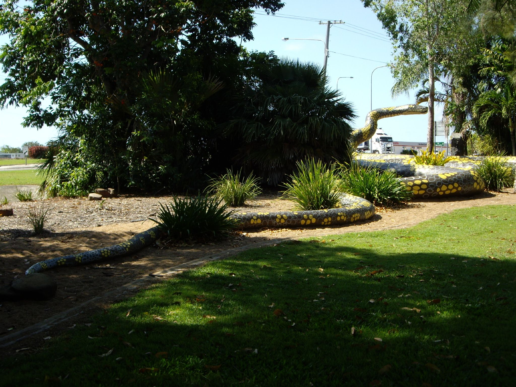 Gubulla Munda is a 60 metre carpet snake sculpture located in Plantation Park in Ayr, Queensland.